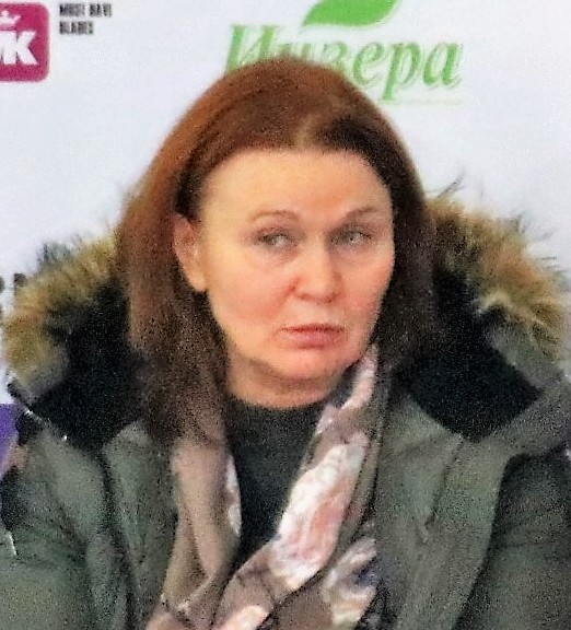 Valentina Chebotareva at the 2019 Russian Figure Skating Championships